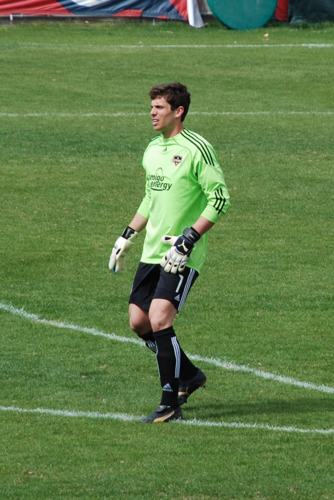 Scrimmage – Houston vs. Montreal @ Robertson Stadium